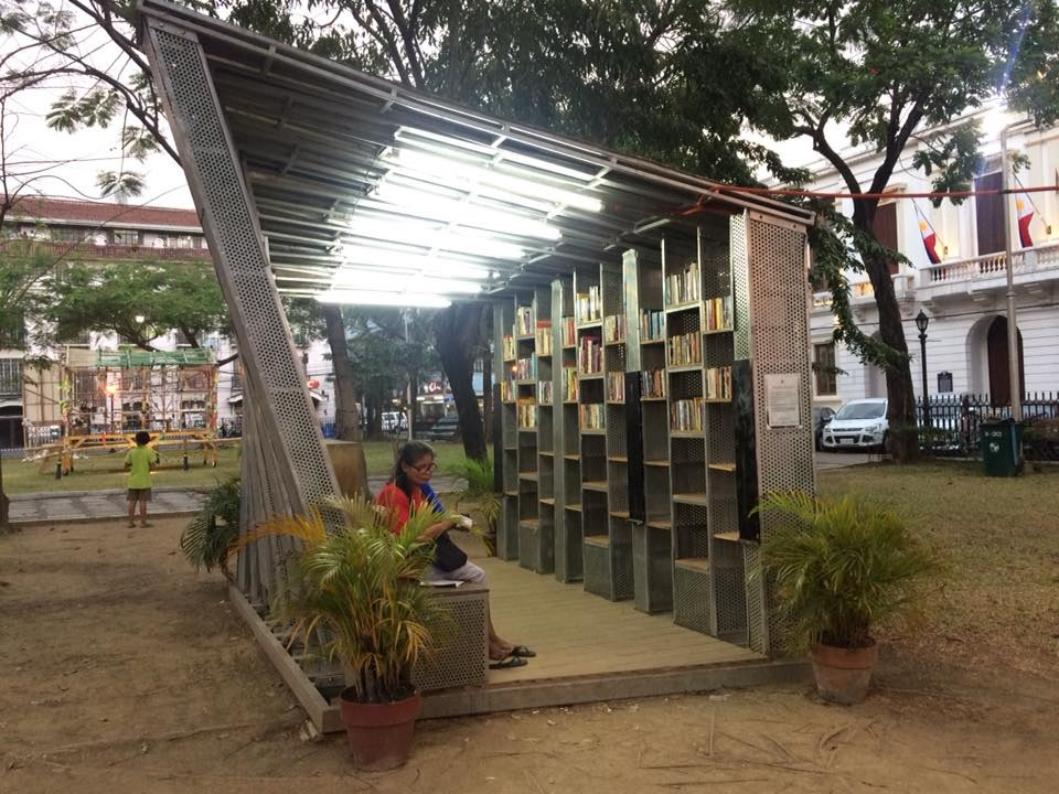 The Book Stop is a public reading space in Intramuros